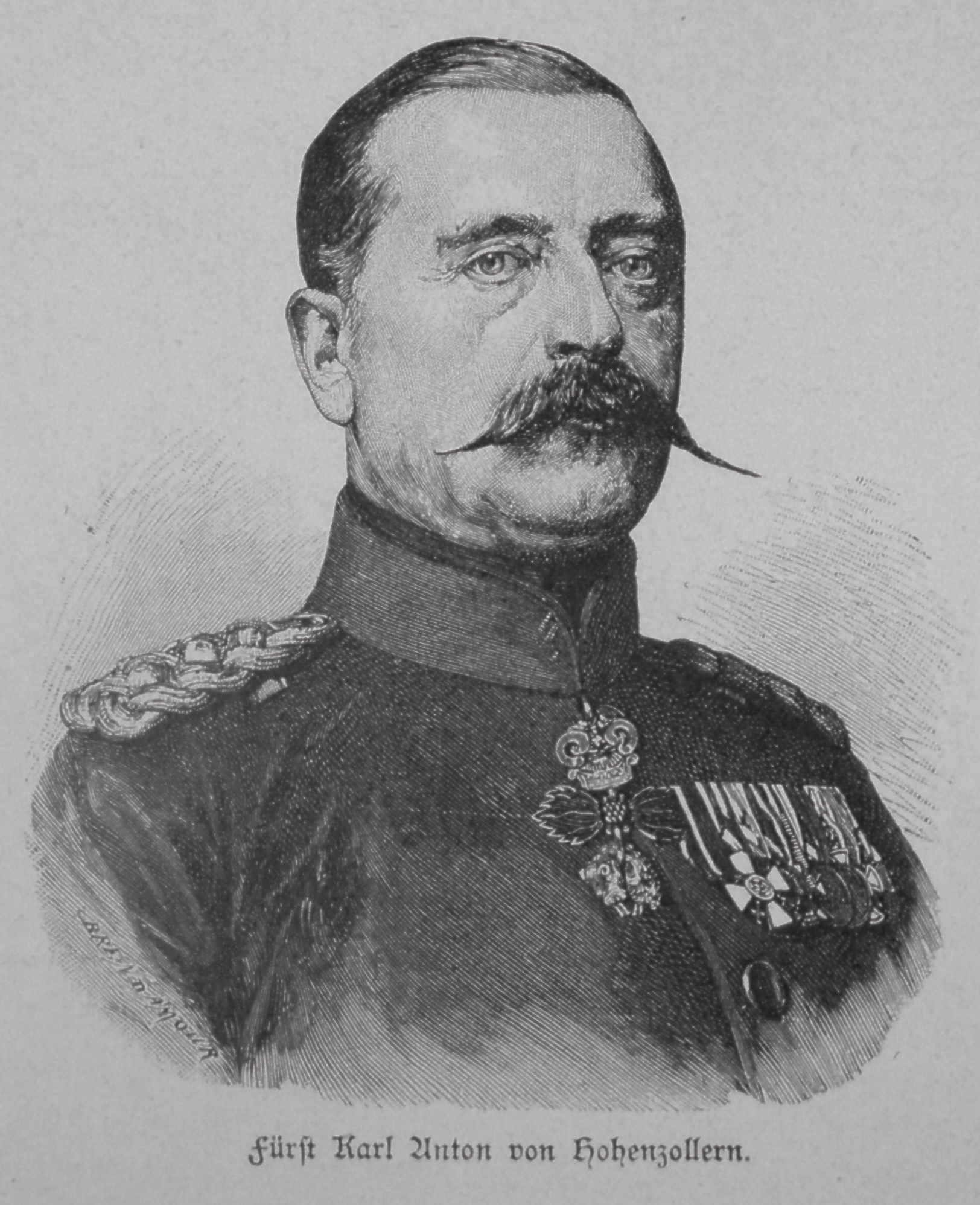 prince Charles Anton of Hohenzollern